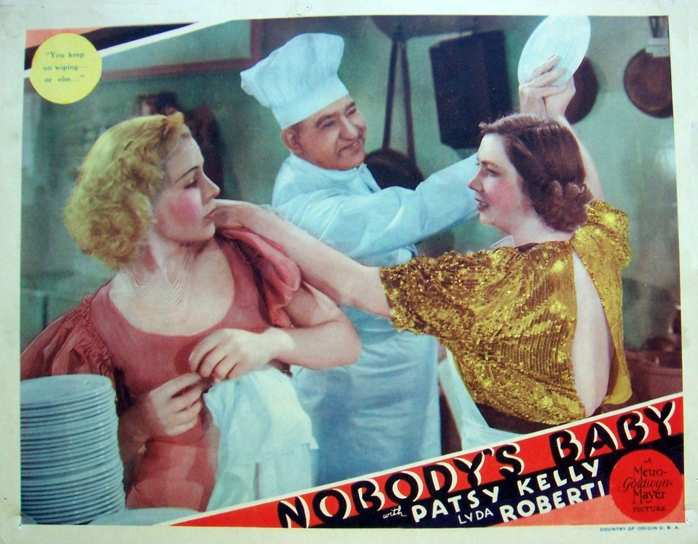 Lobby card for the American comedy film Nobody's Baby (1937). The item has no copyright marks on it as can be seen at links and original upload. At bottom right is Country of origin USA.